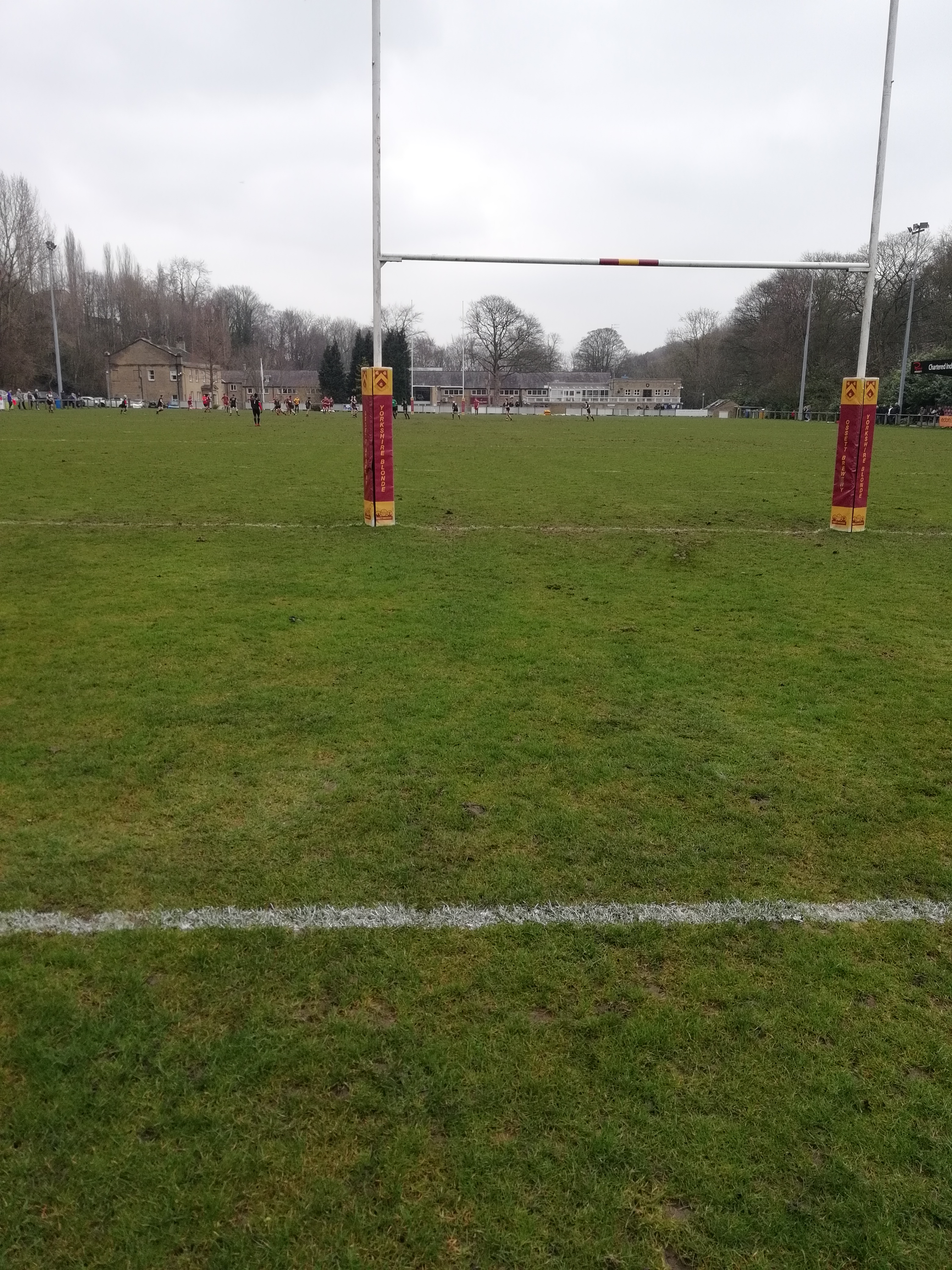 View towards the clubhouse at Lockwood park